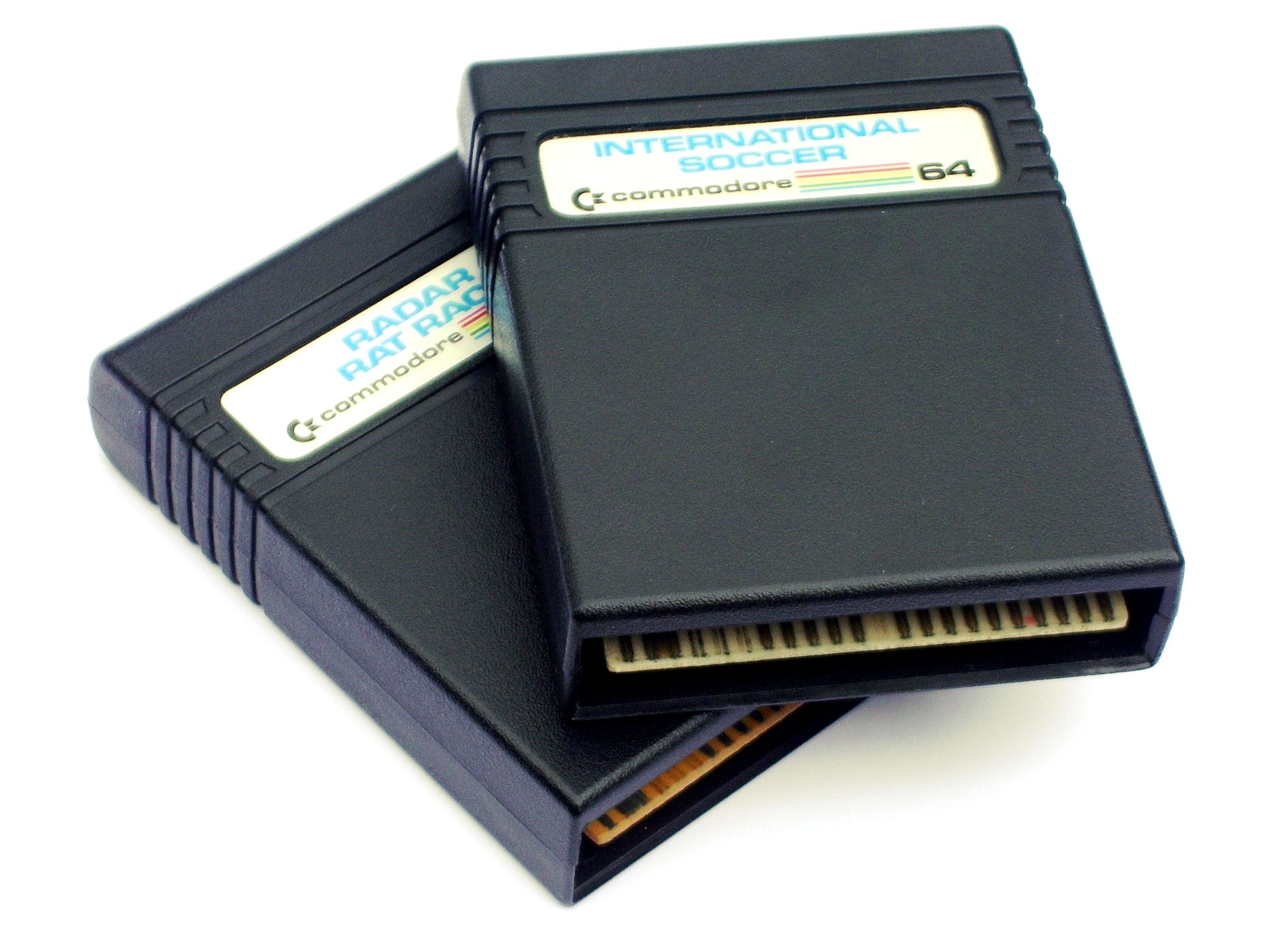 Commodore 64 games cartridges: Radar Rat Race and International Soccer.